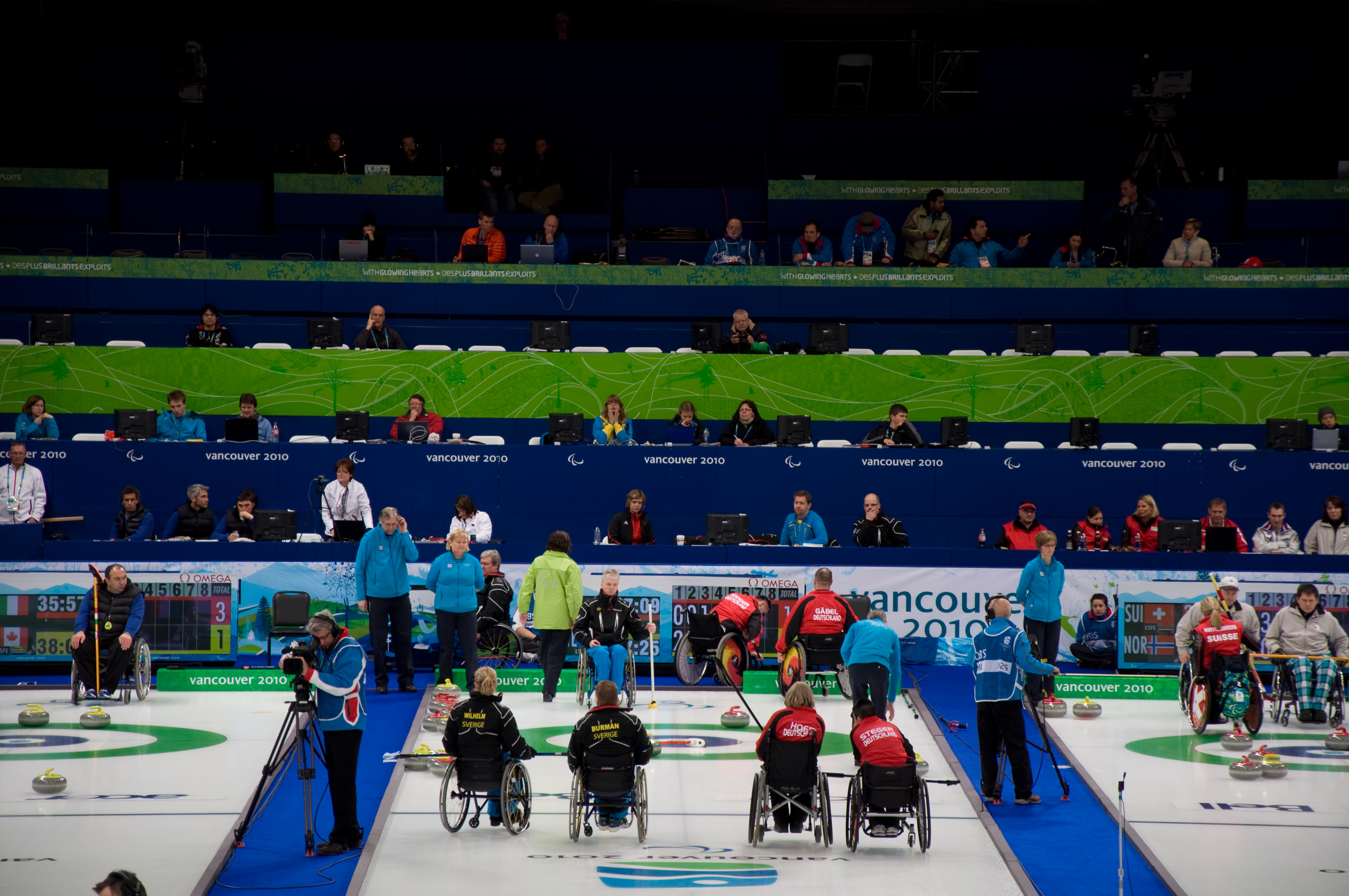 Wheelchair Curling at the Vancouver Olympic/Paralympic Centre, Vancouver during the 2010 Paralympics